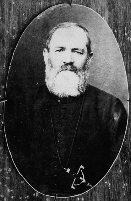 Father Alexis André, 1885 Duck Lake, Saskatchewan